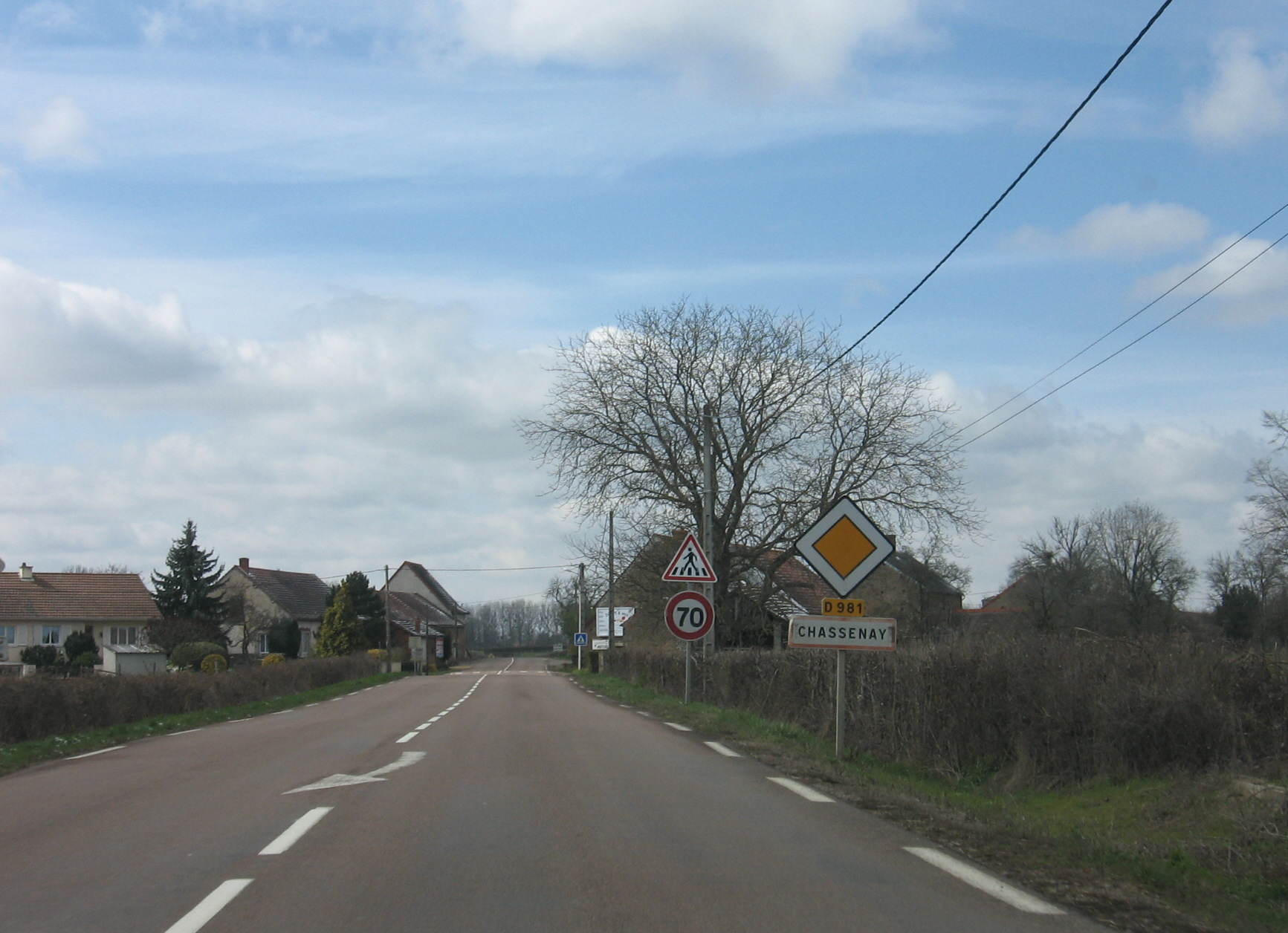 Chassenay, place near Arnay-le-Duc